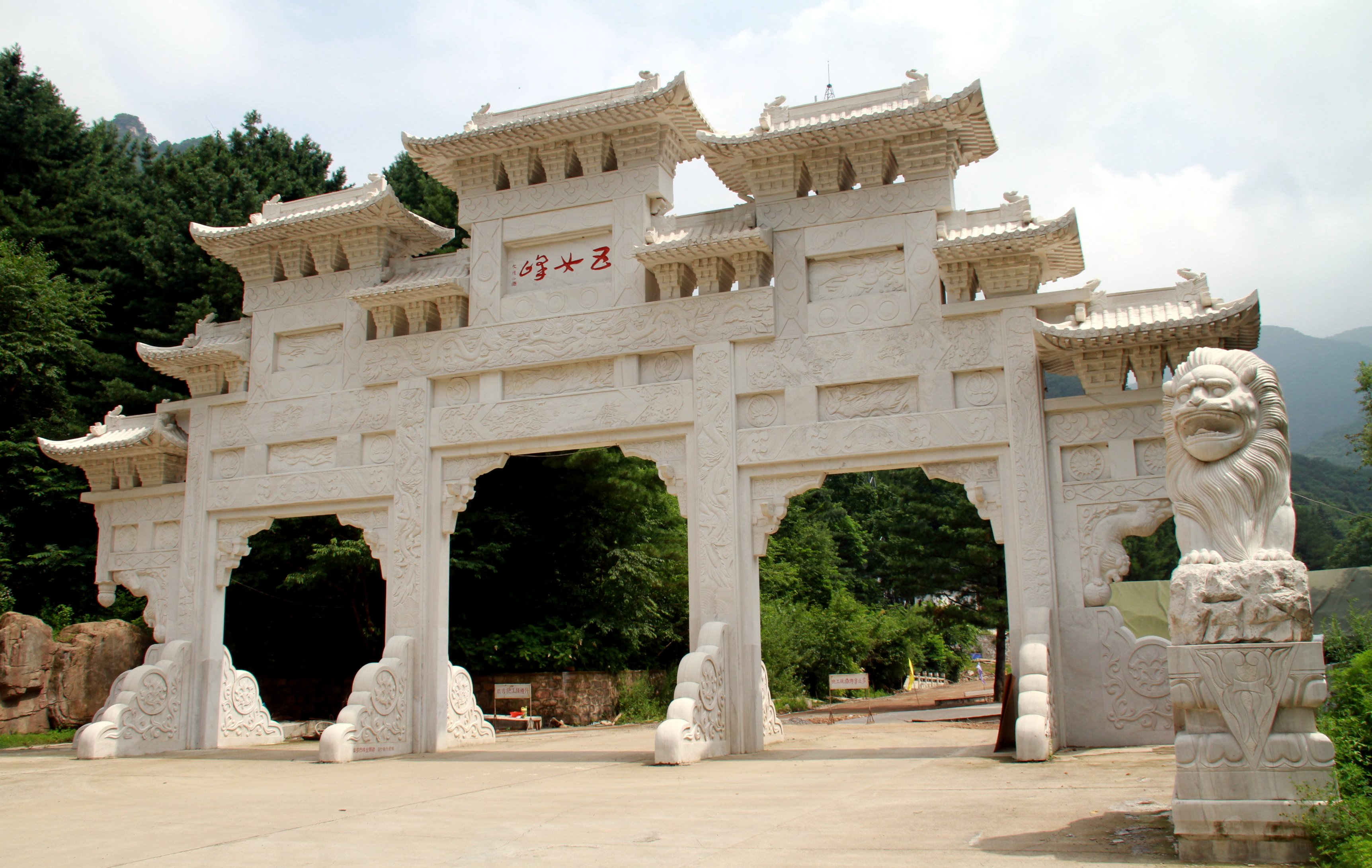 Photograph to the entrance of the Wunü Peaks National Forest Park, Tonghua City, Jilin Province, China.